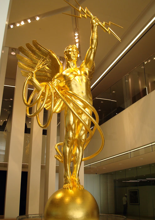 AT&T's Spirit of Communications sculpture is housed at their corporate headquarters in Dallas, Texas.